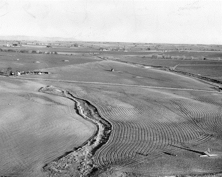 United Air Lines Flight 629. The tail of the plane was discovered on a Colorado farm.